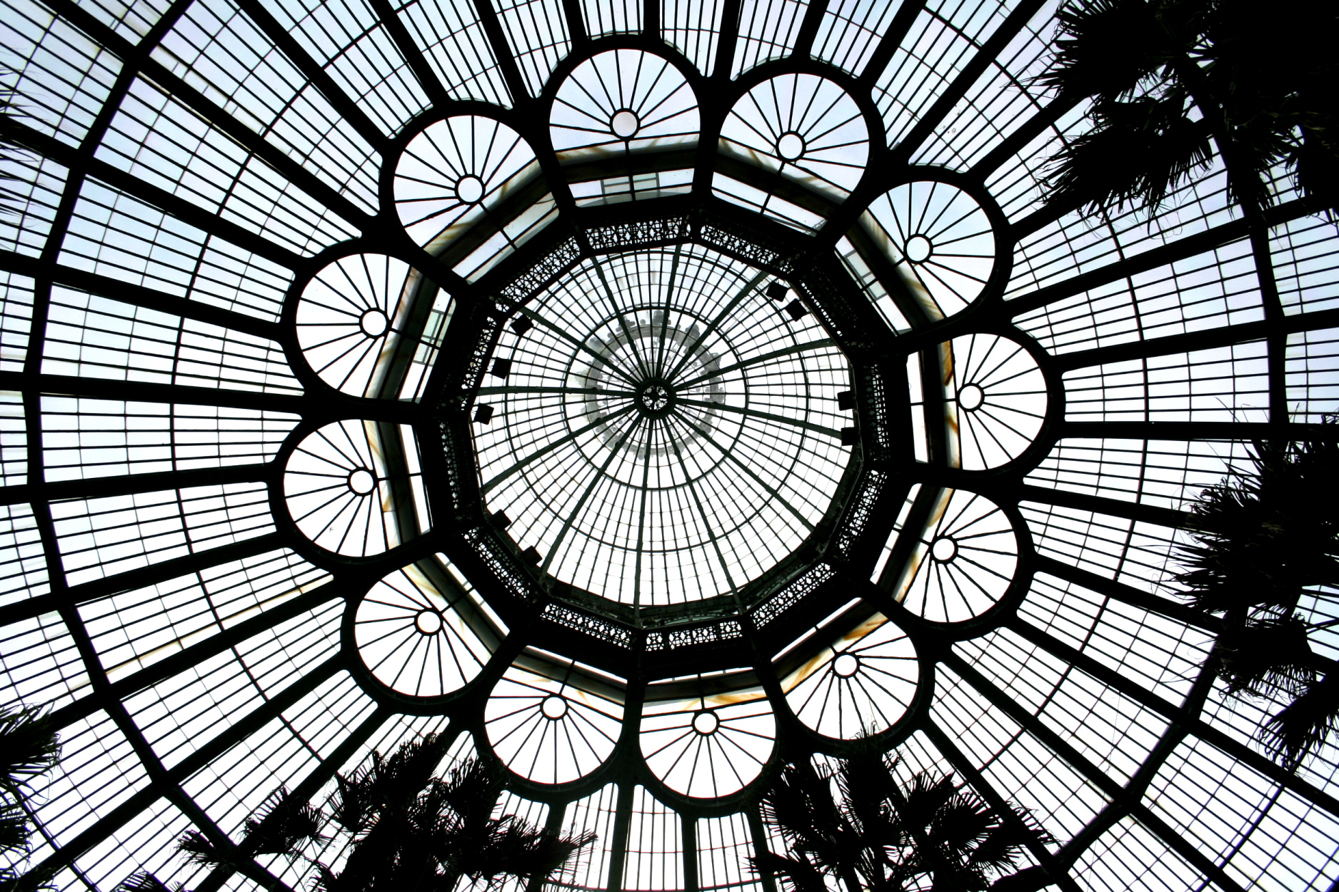 Laeken (Belgium), the Royal Greenhouses of Balat (1874-1890).